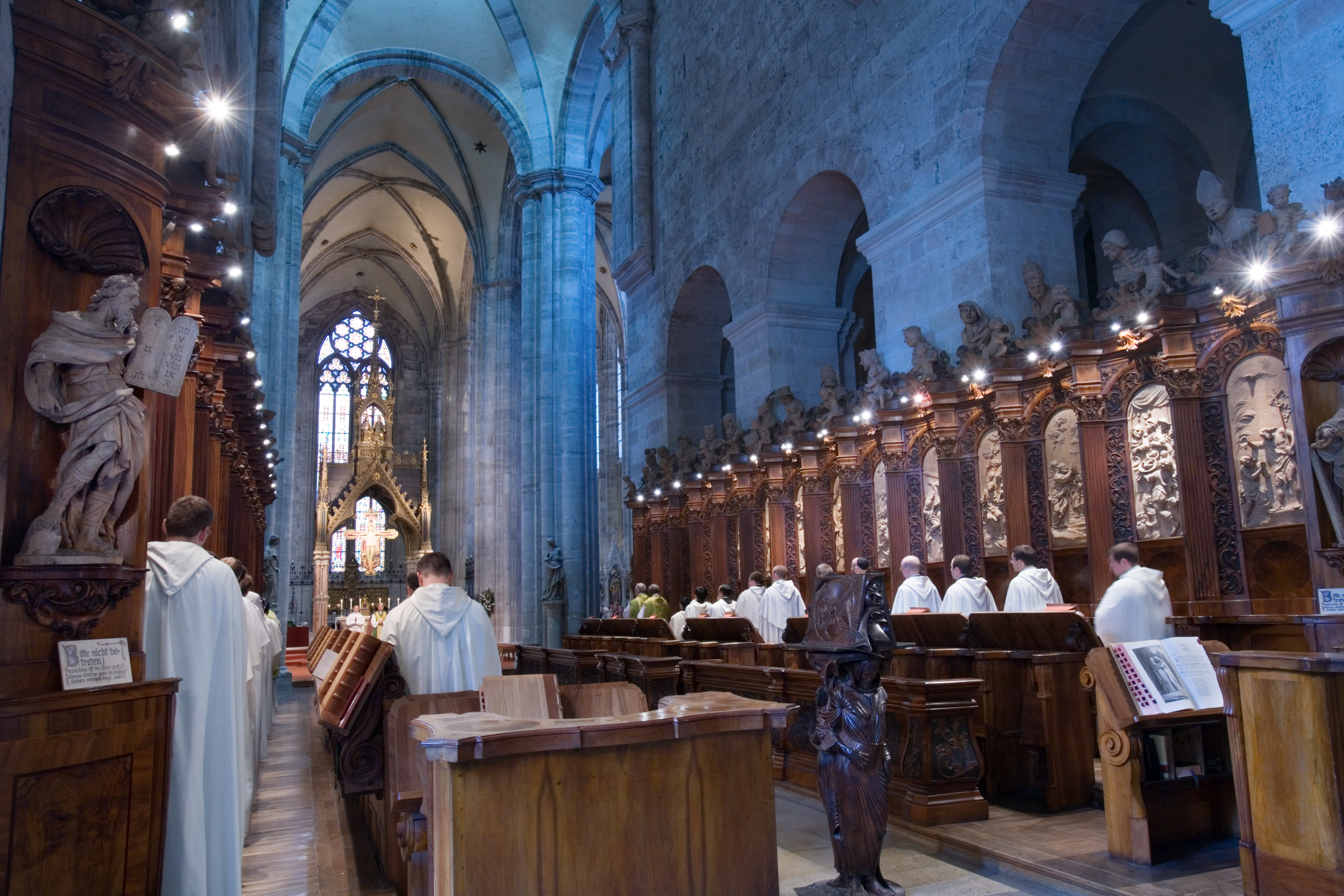 Religiuos service and monk choir. Heiligenkreuz Abbey, Austria